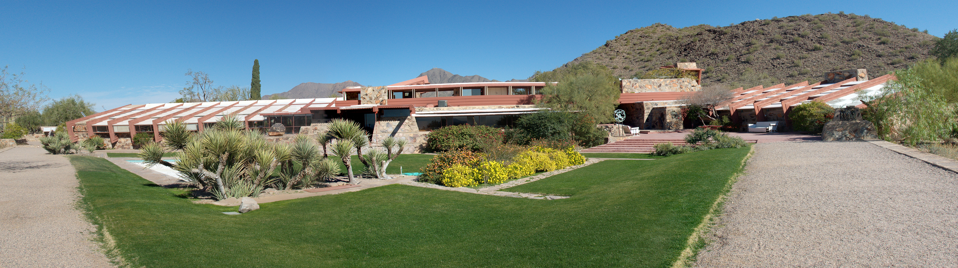 Pano shot from the front yard.